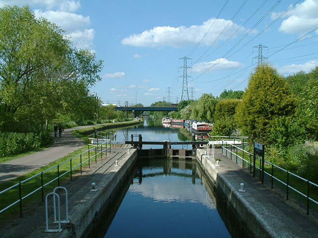 Rammey Marsh Lock and M25 bridge Rammey Marsh Lock is on the River Lee Navigation in the Lee Valley Park: the electricity pylons are always looming wherever one is in the Park.